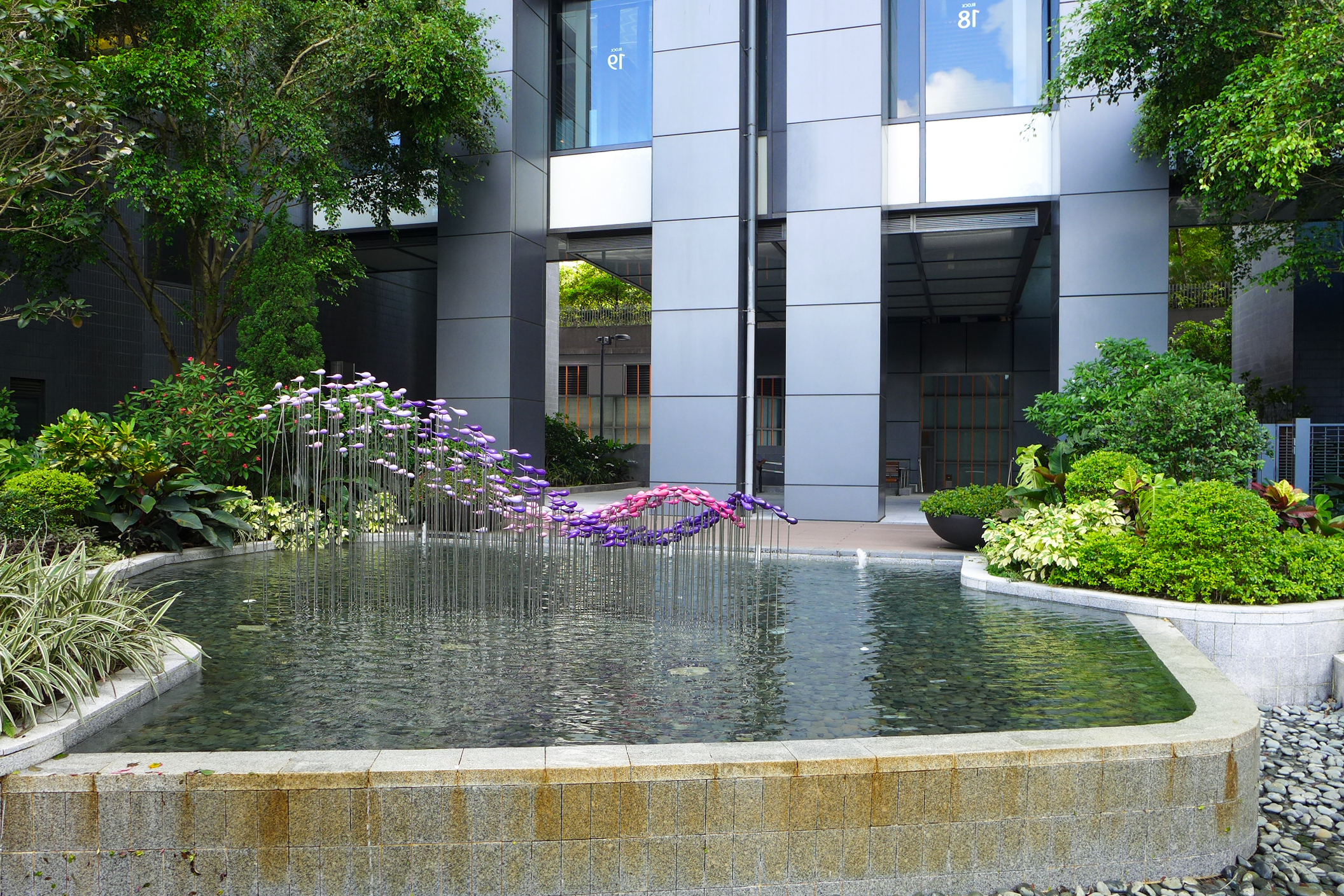 Double Cove Phase 2 Block18-19 Sculpture